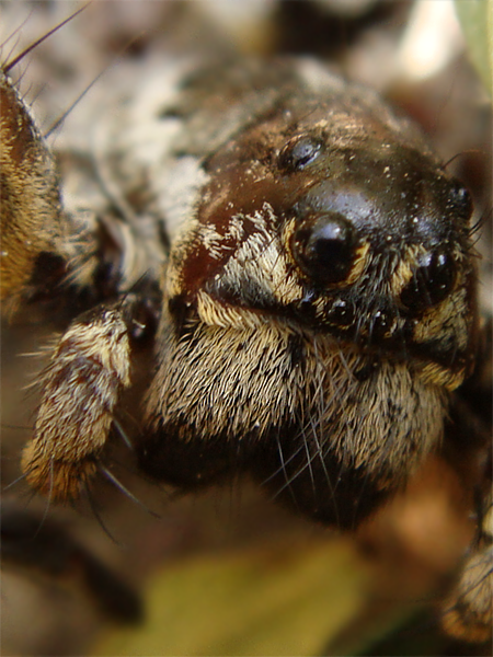 Lycosa tarantula in Ansião, Leiria, Portugal